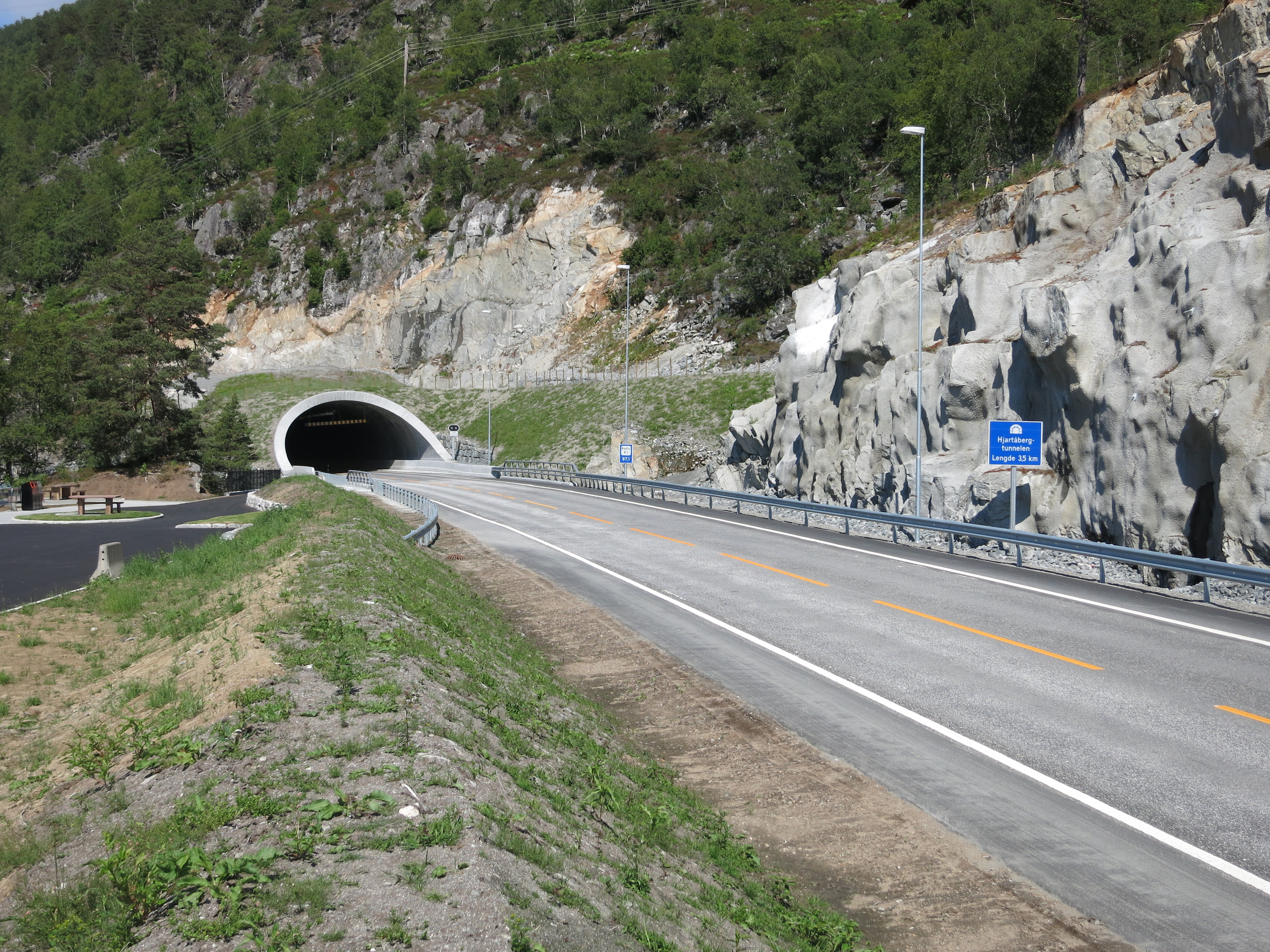 Hjartåbergtunnelen south entry